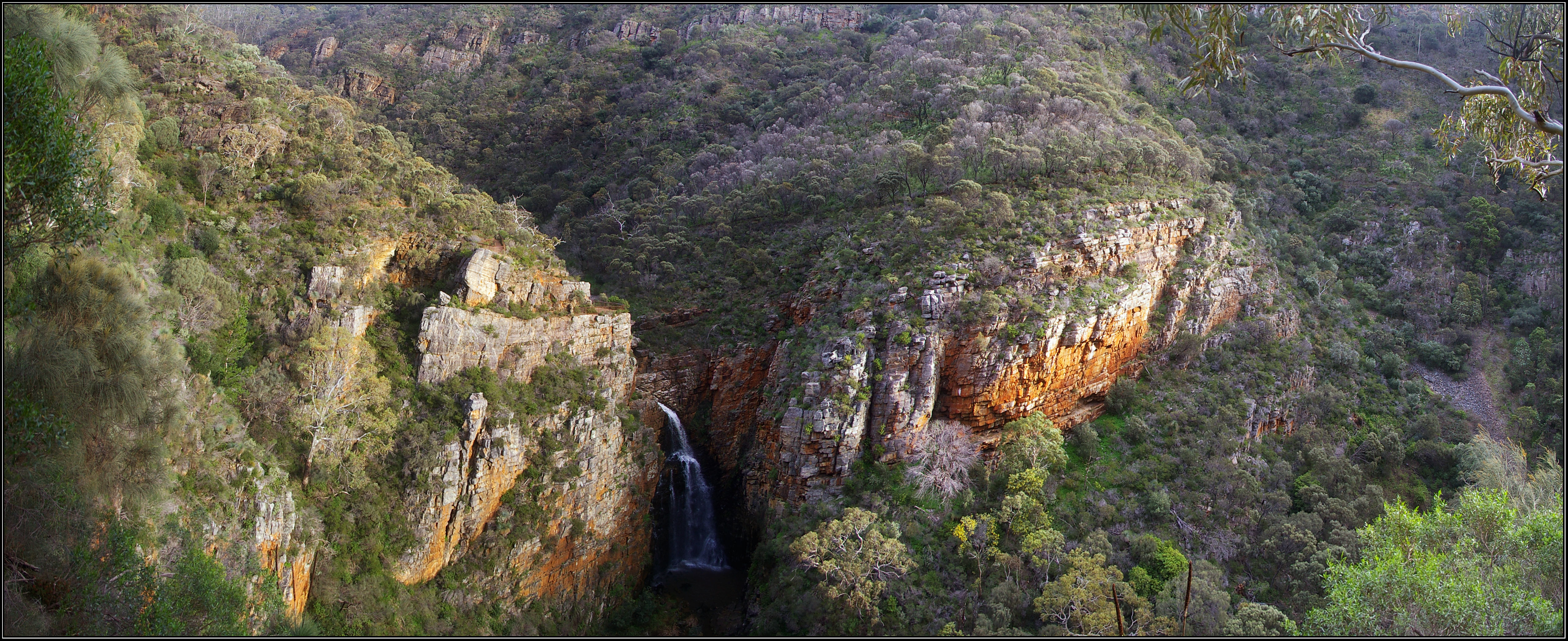 Panorama of Morialta Conservation Park, showing the gorge, First falls, and the rocky, eroded topography of the lower park.